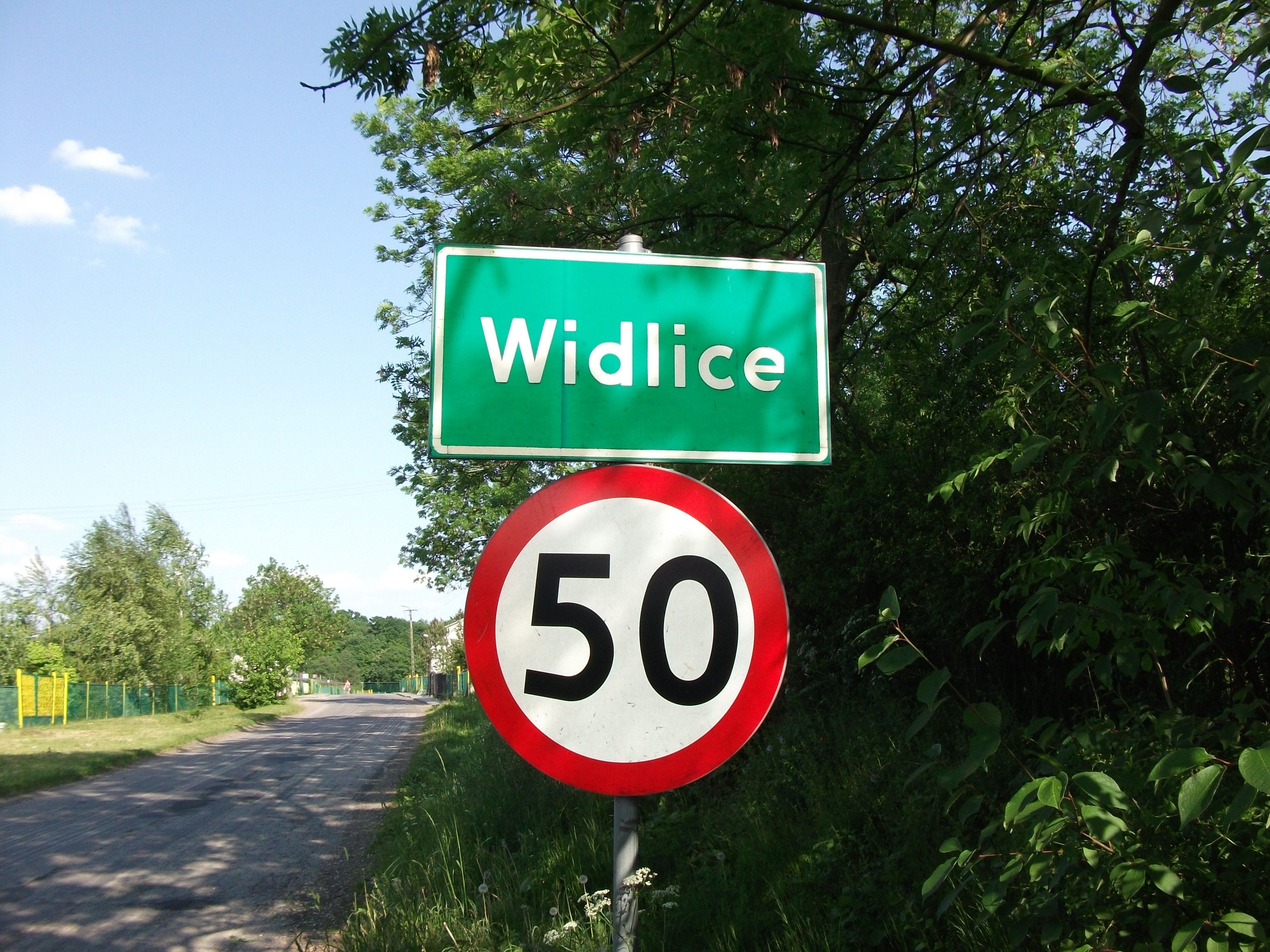 Widlice village in Poland